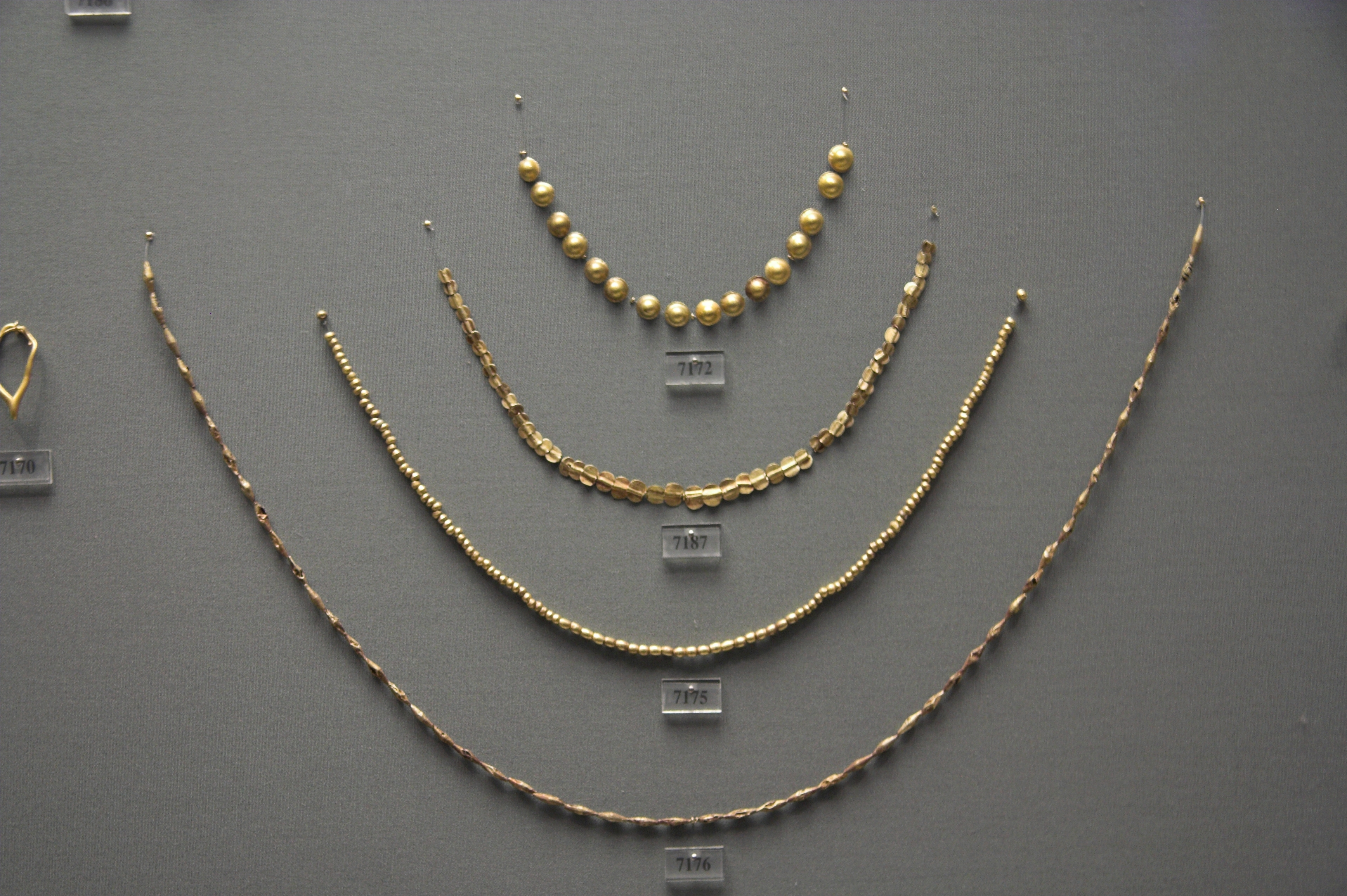 Necklaces form the Treasure of gold jewellery, of highly developed techniques (granulation filigree and repussé). Poliochni on Lemnos, Room 643. Early Bronze Age, 2400-2000 BC. Similar to jewellery from Troy. Archaeological Museum of Athens.